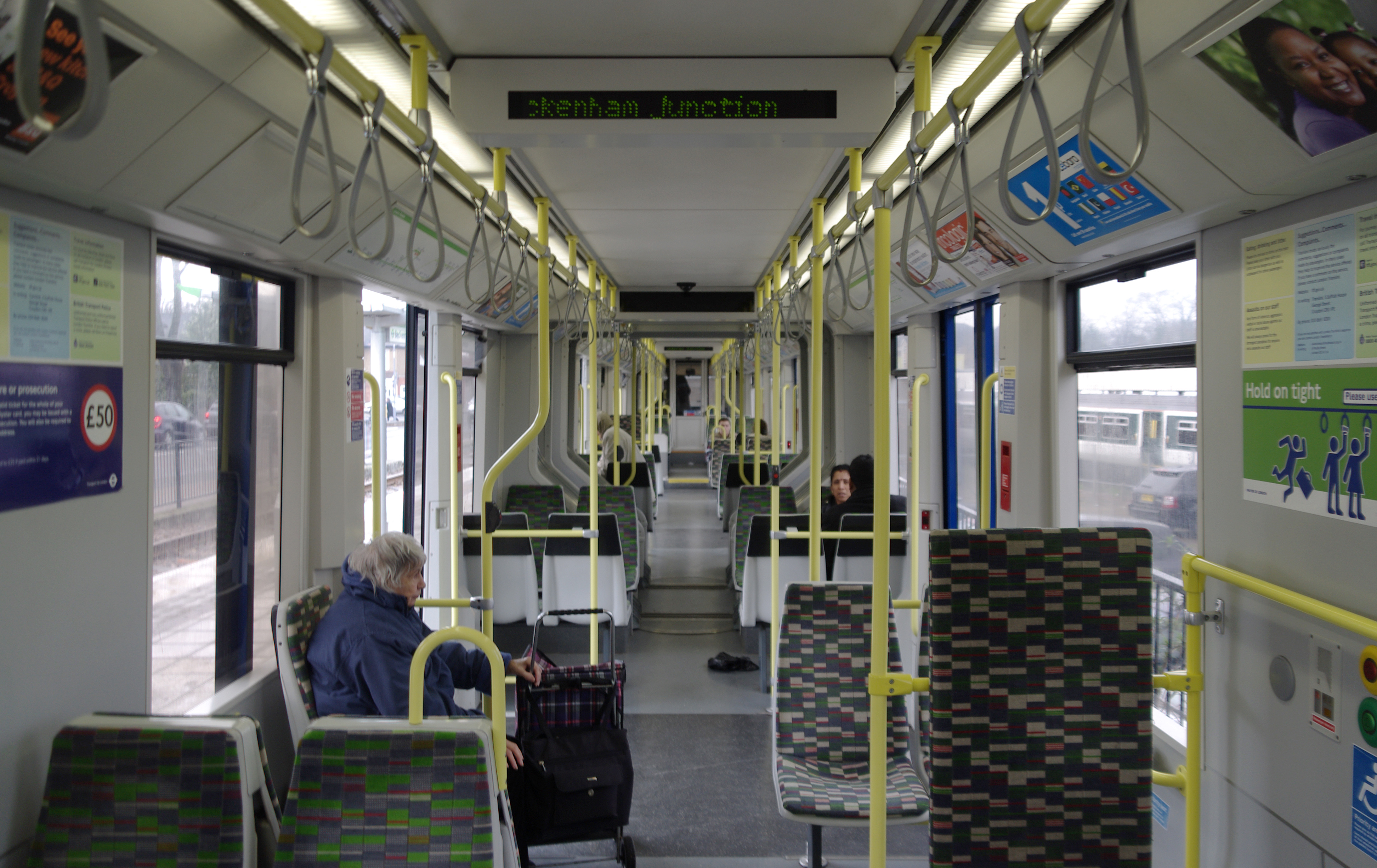 Interior of London Tramlink unit 2544 at Beckenham Junction.